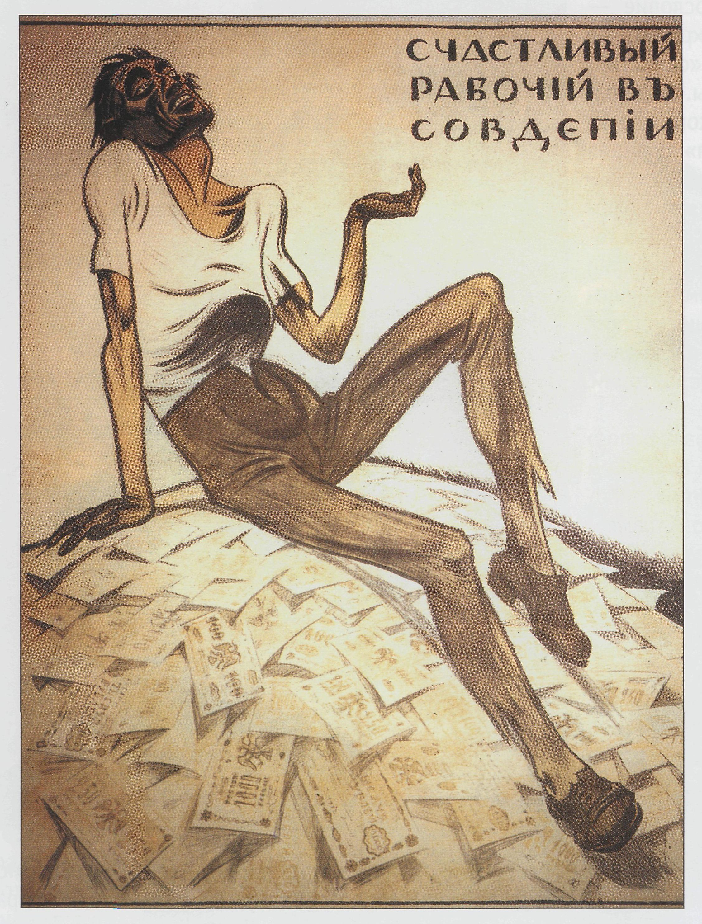 A Happy Worker in Sovdepia (a derogatory name for the Soviet state). A White Russian paper poster published in Odessa, satirizing hyperinflation in Soviet-held territories (the worker is shown begging while sitting on a heap of devalued and worthless banknotes).